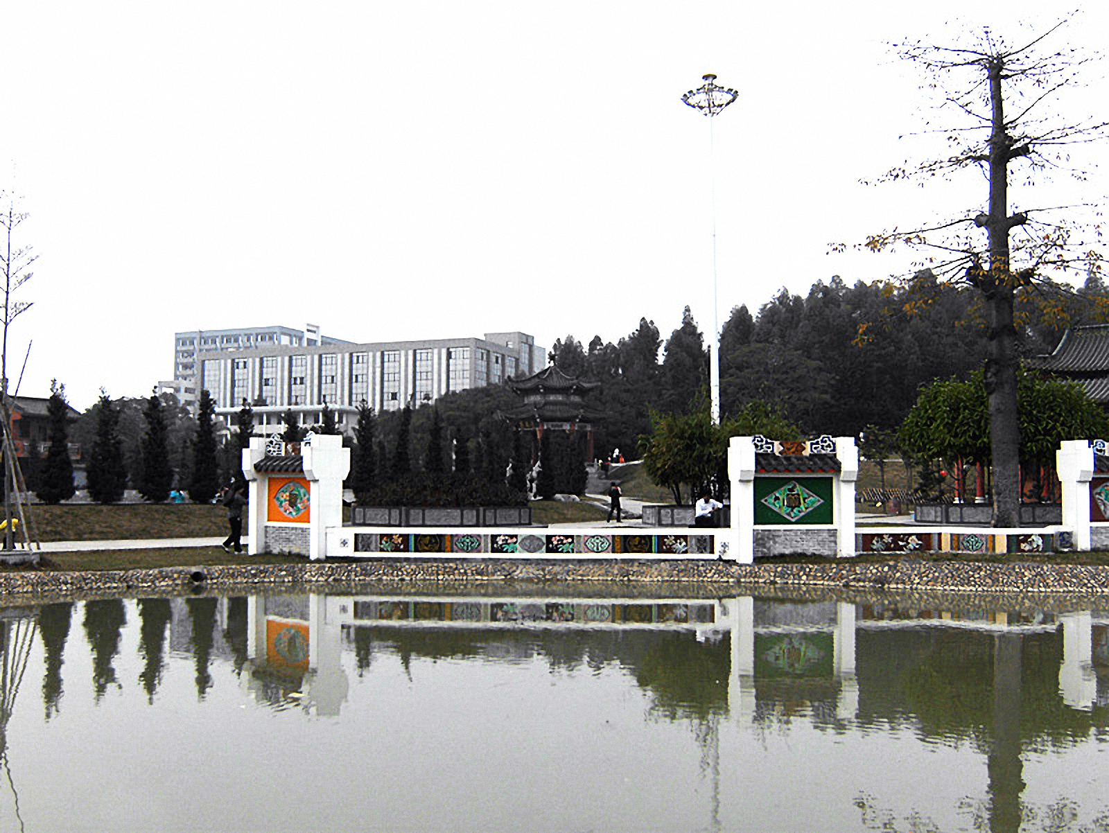 A glimpse of Xintan Ecological Park in Puning